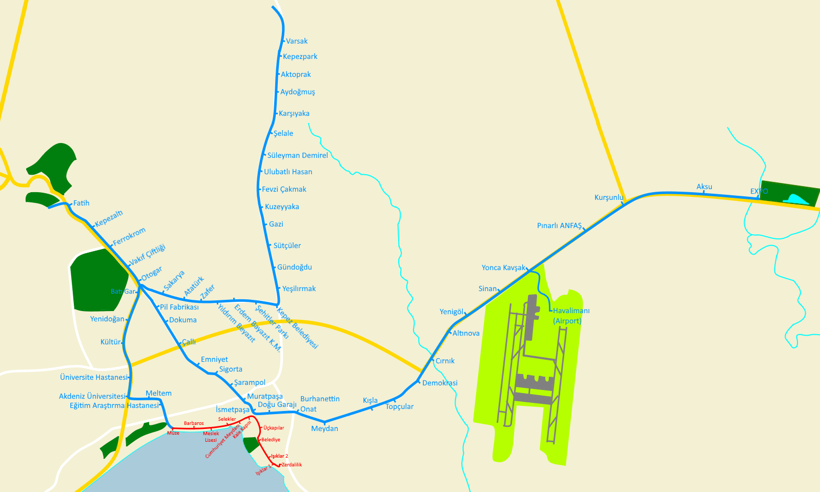 Antalya Rail Transit Map